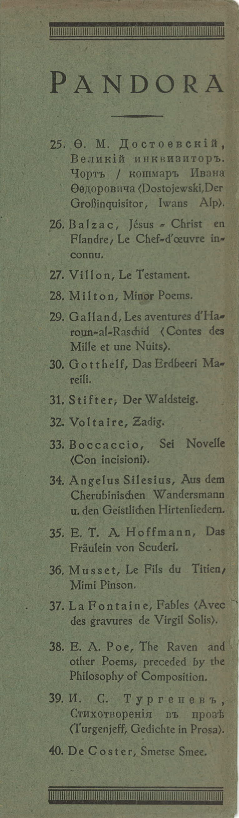 Kleist, Erzählungen, Insel Verlag 1920, Dustwrapper